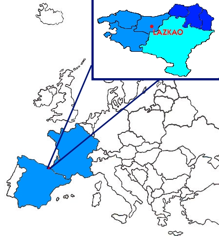 Location of Lazkao (Spain), within Europe